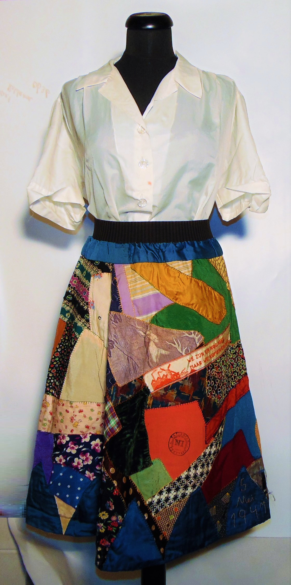 National liberation skirt; National Institute registration stamp 1947, two layers of fabrik orange print of windmills + factory and text ‘We zijn er nog niet, maar we komer er wel’ (we’re not there yet but we’ll get there), These skirts were widely produced in the Netherlands after the second world war to commemorate liberation. The dates of successive victory day celebrations during which the skirt was worn were embroidered on the border. Photographed in the collection of the National Liberation Museum 1944-1945, the Netherlands, archive number 3.2.6.